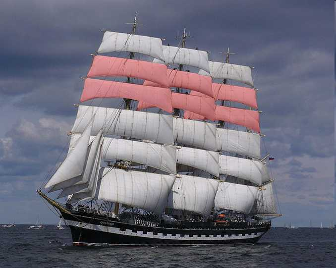 Krusenstern topgallant sails in pink